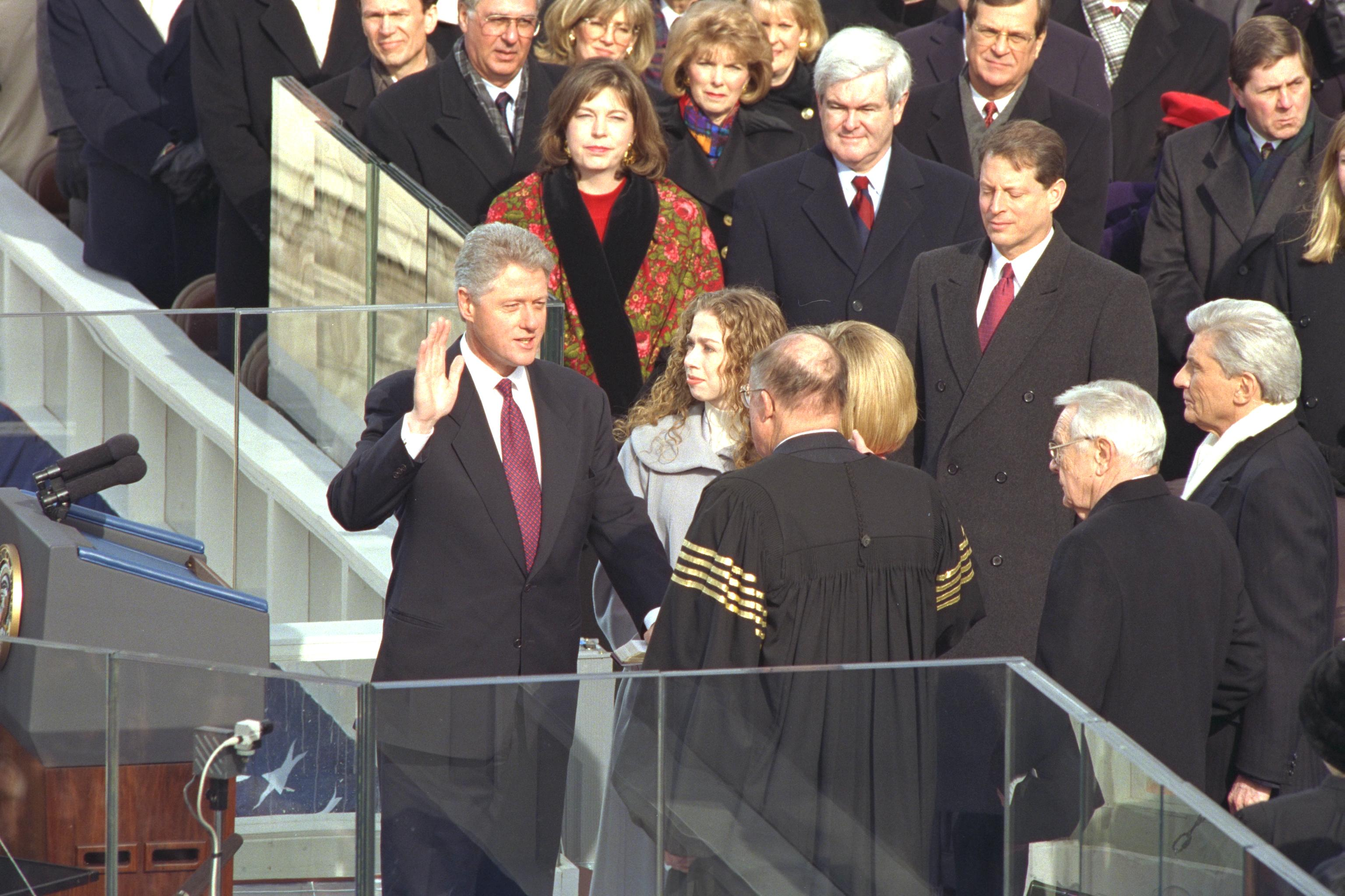 Creator/Photographer: Smithsonian Photographer Medium: C-type print Culture: American Date: 1997 Persistent URL: Repository: Smithsonian Institution Archives/Smithsonian Photographic Services Accession number: 4A47A73D75214F52